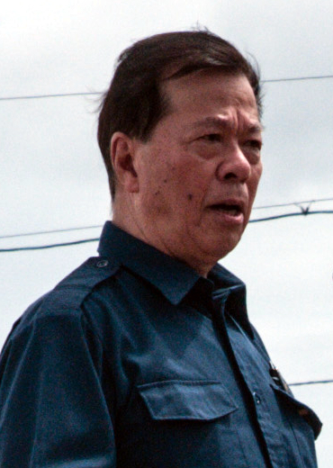 Heita Kawakatsu, Governor of Shizuoka Prefecture, and Saburō Matsui, Mayor of Kakegawa City, participated in Shizuoka Prefecture and Kakegawa City Disaster Drill in Kakegawa City, Shizuoka Prefecture on September 4, 2016. After that, Matsui addressed.